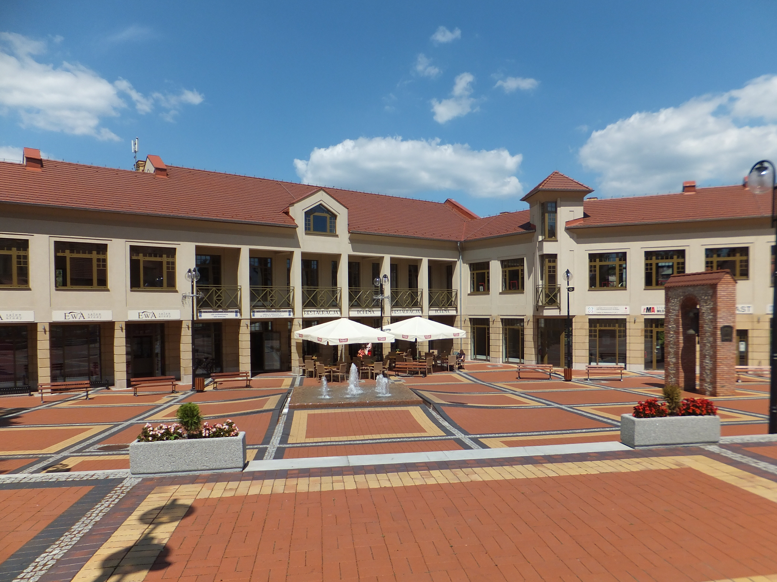 Farski square (pol. plac Farski) in Lędziny (Poland).